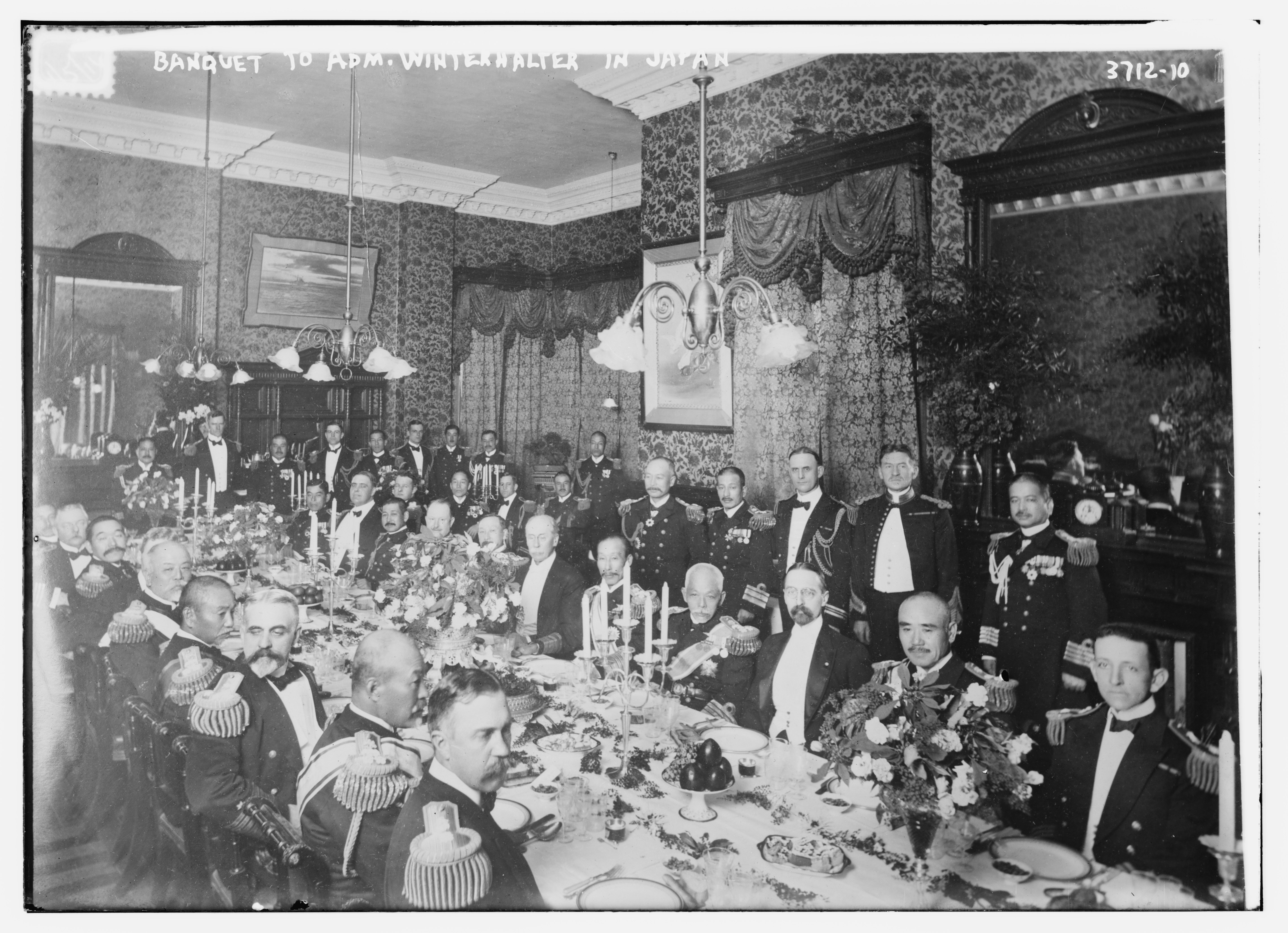 Title: Banquet to Adm. Winterhalter in Japan Abstract/medium: 1 negative : glass ; 5 x 7 in. or smaller.